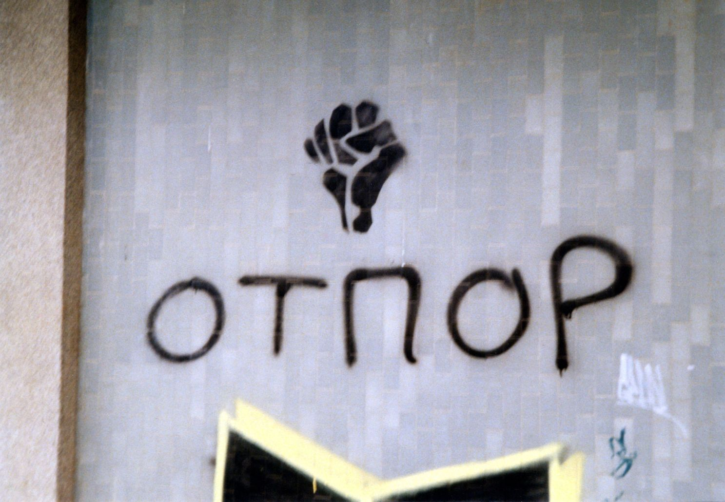 OTPOR sign near the University of Novi Sad, Serbia, 2001